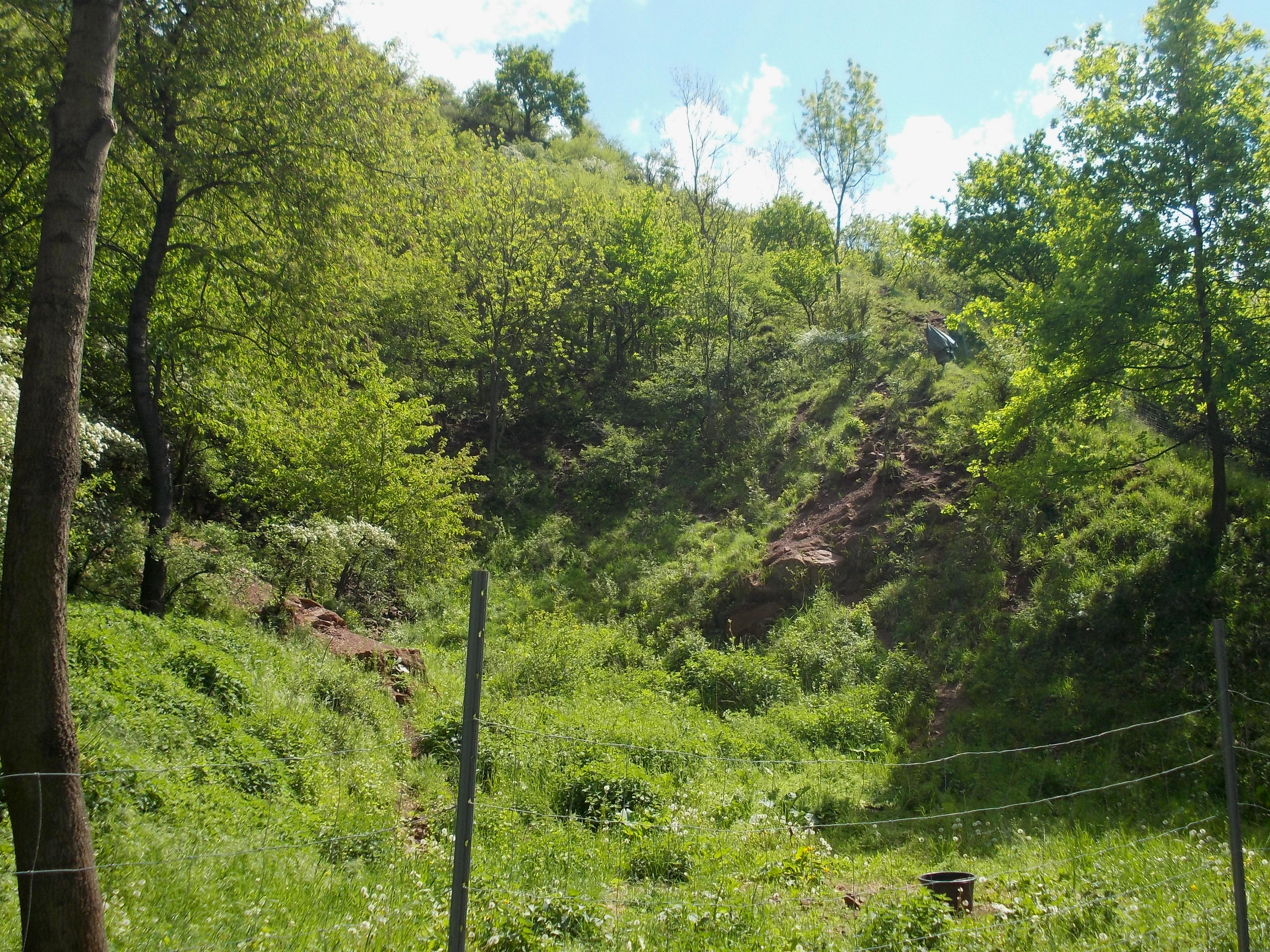 Old quarry near Dobis (Wettin-Löbejün, district: Saalekreis, Saxony-Anhalt), part of the nature reserve Saale hillsides near Dobis